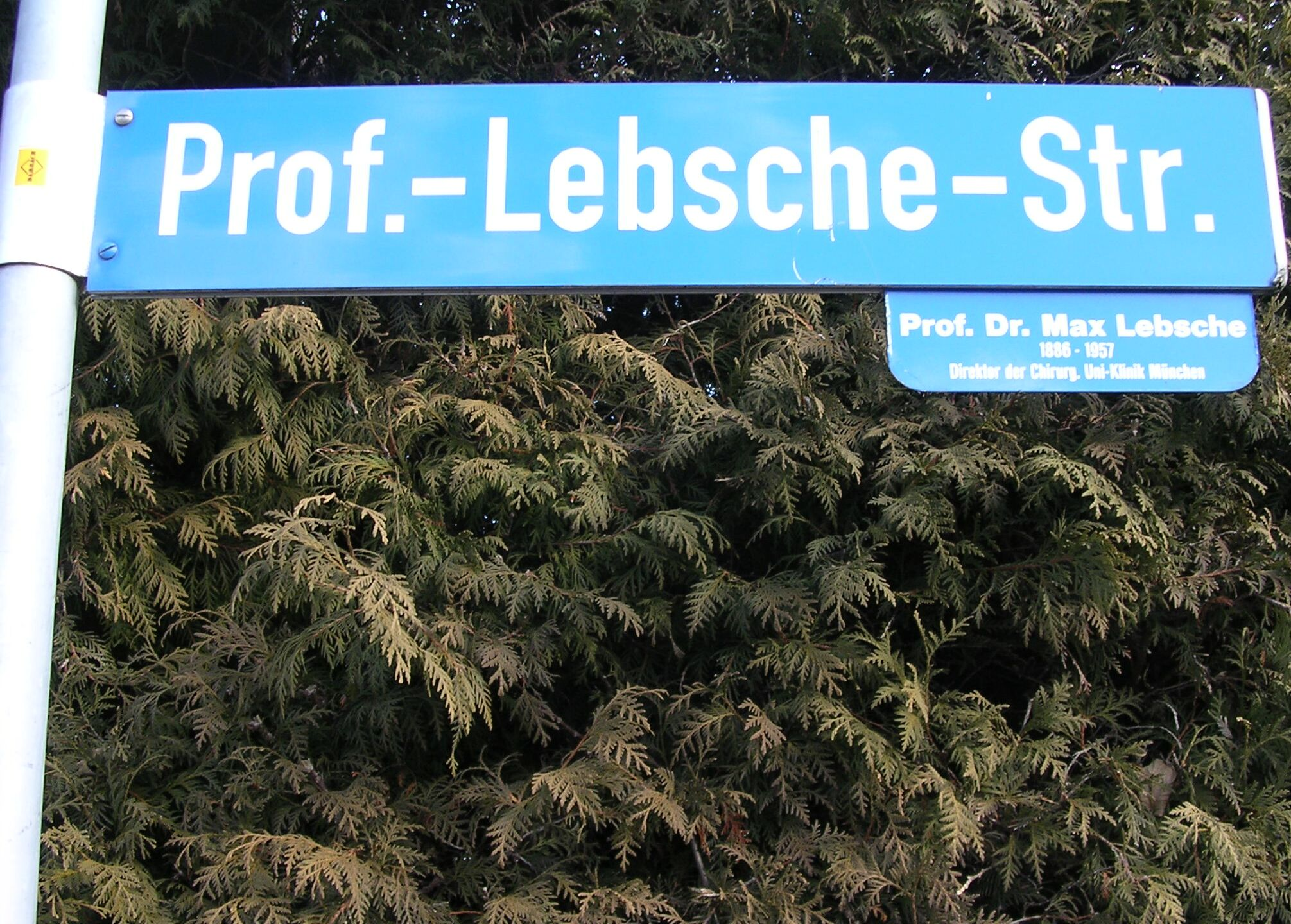 Street sign Prof.-Lebsche-Str. in Glonn in Upper Bavaria/Germany